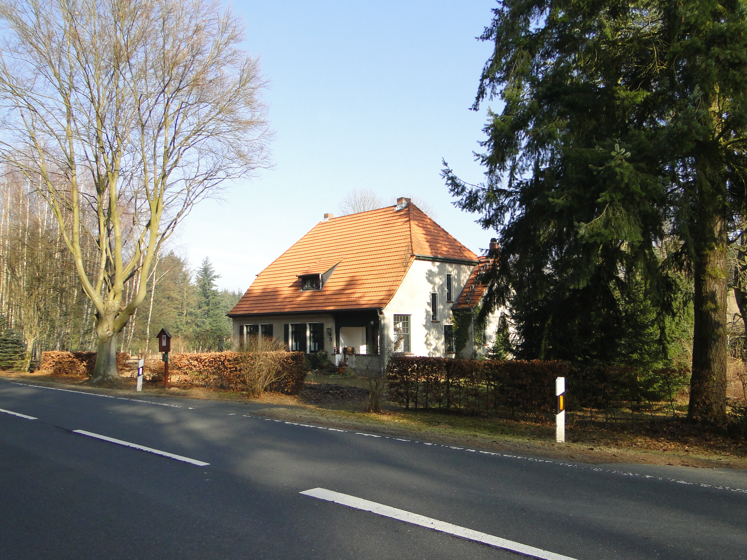 Former forester's lodge in Bossow, district Güstrow, Mecklenburg-Vorpommern, Germany